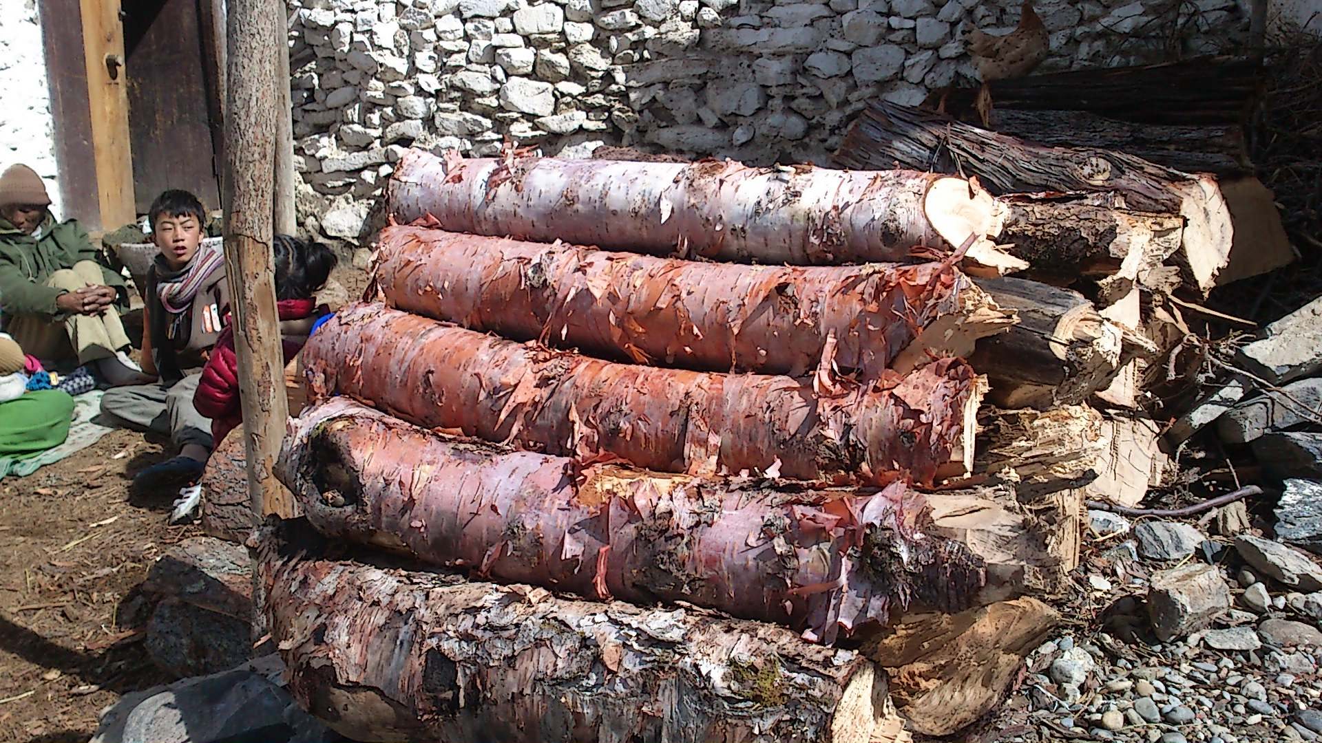 Birch bark used for writing.